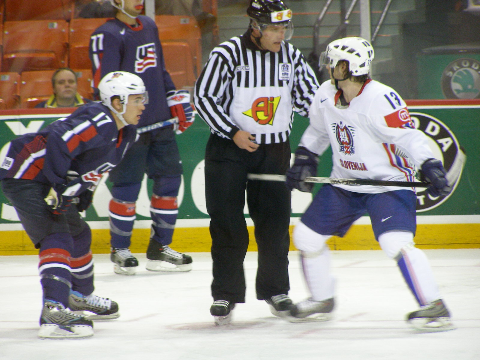 Slovenia VS USA (IIHF World Hockey Championship in Halifax NS, May 4 2008)